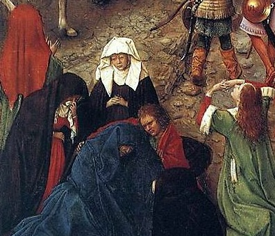 Detail from Jan van Eyck's Crucifixion and Last Judgement diptych. Metropolitan Museum of Art, New York.